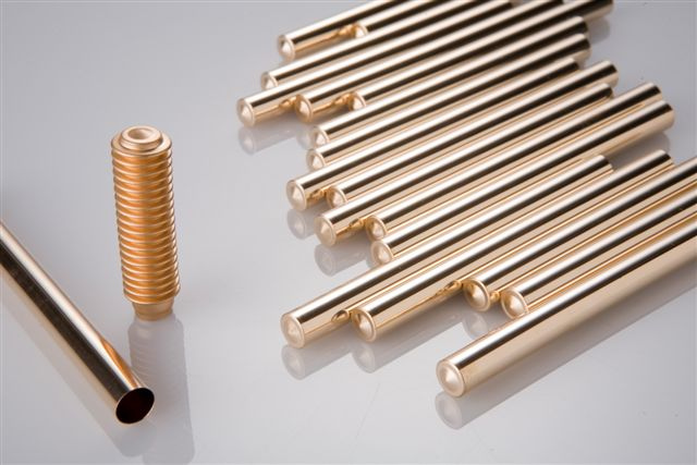 Parts manufactured by deep drawing.